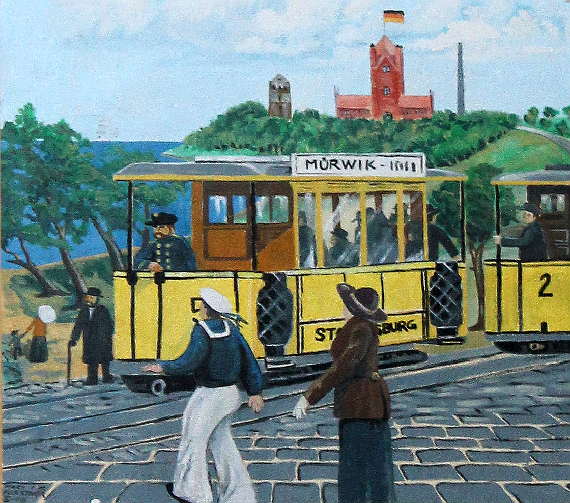 Mürwiker Straßenbahn-Linie vor der Marineschule Mürwik, als Bild an der Seewarte C; Perspektive angepaßt und schärfer